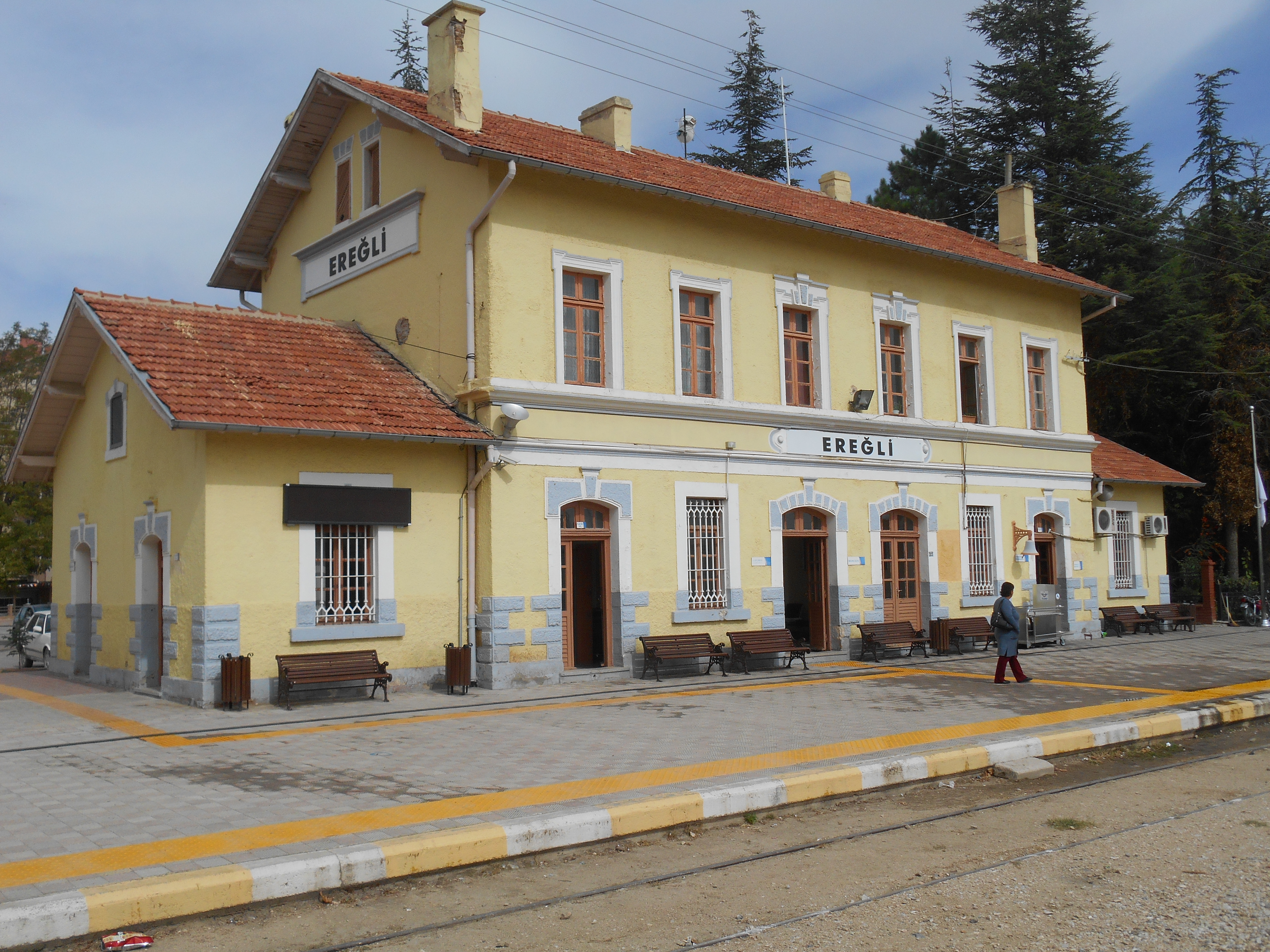 Ereğli Gar - View from South